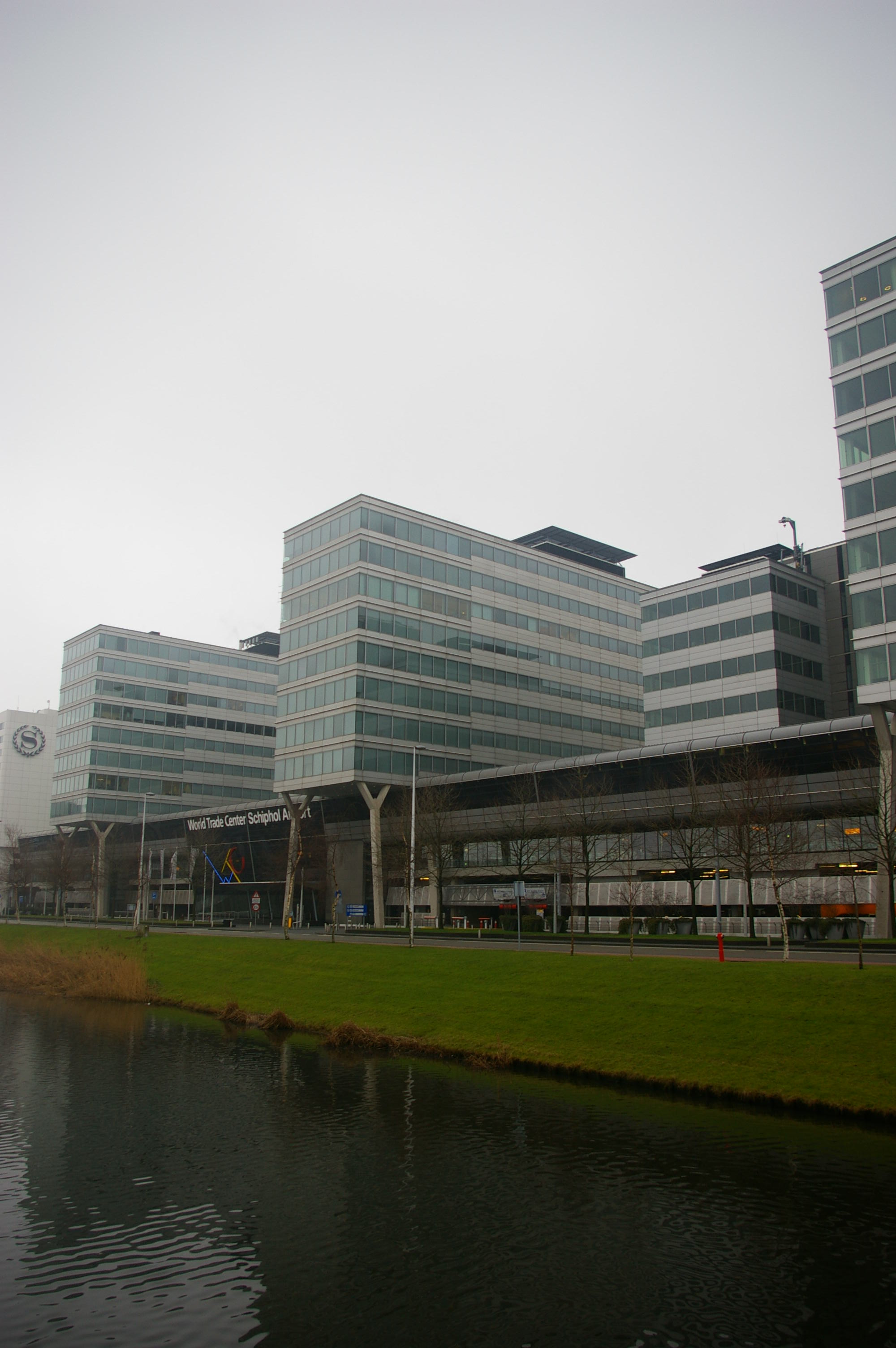 Schiphol World Trade Center, Schiphol, the Netherlands. This building houses the head office of SkyTeam and a sales office of Iran Air. Picture taken at the request of user WhisperToMe.